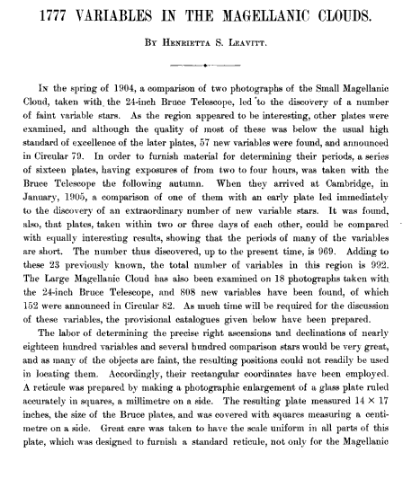 "1777 Variables in the Magellanic Clouds, by Henrietta S. Leavitt." Annals of the Harvard College Observatory, Vol. LX, No. IV, Published by the Observatory, Cambridge, Massachusetts, 1908.